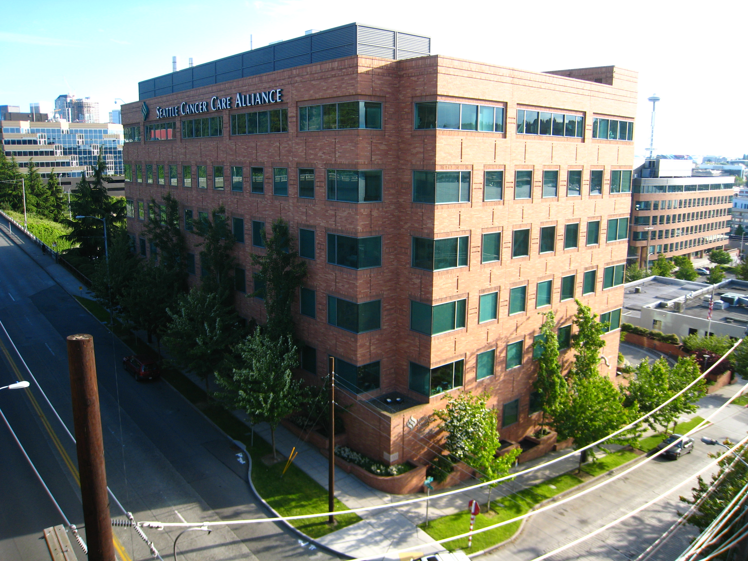 Seattle Cancer Care Alliance (SCCA) is a non-profit cancer treatment center in Seattle, Washington, existing as an alliance between Fred Hutchinson Cancer Research Center, University of Washington Medicine, and Seattle Children's Hospital.